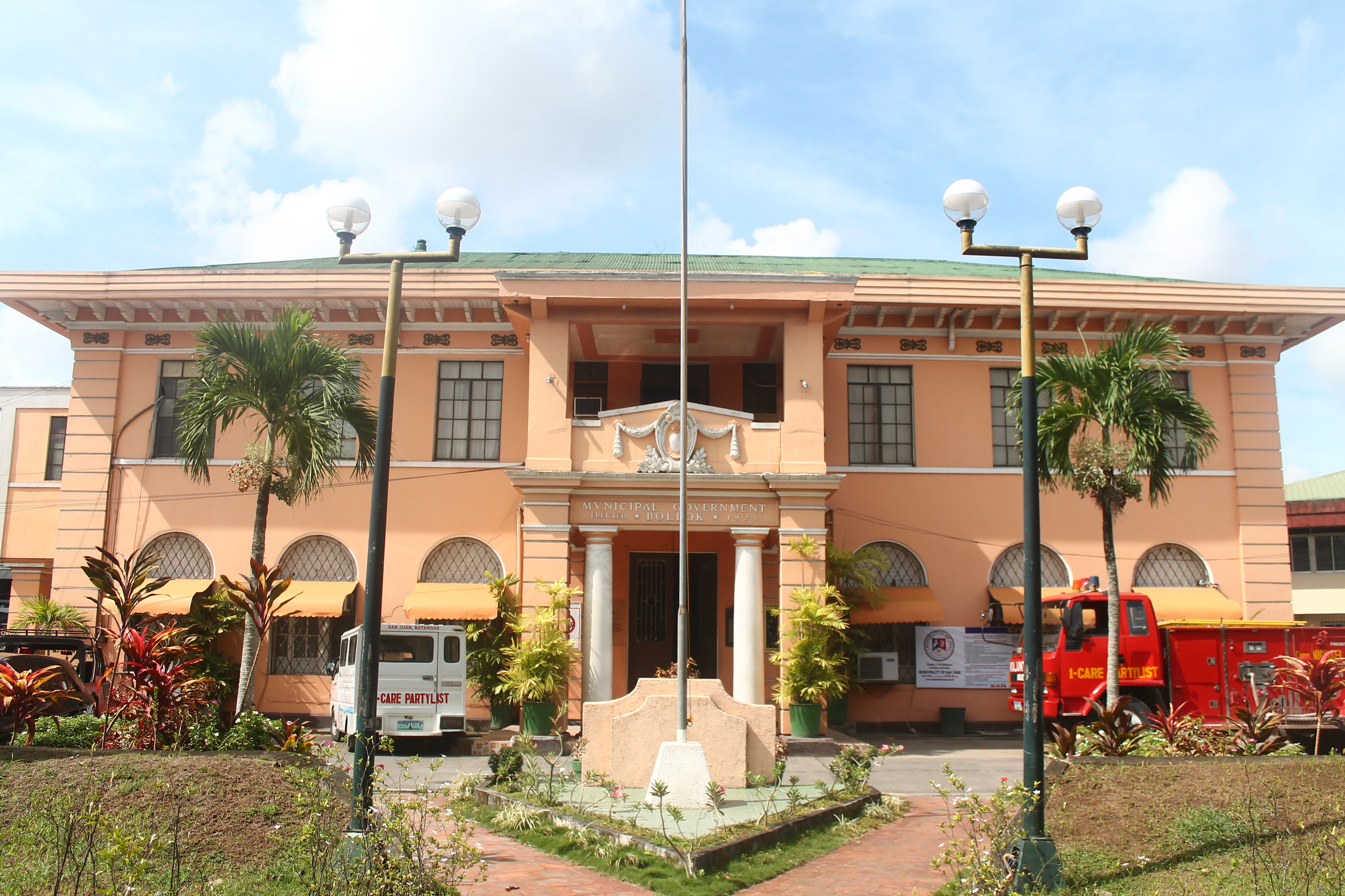 San Juan, Batangas